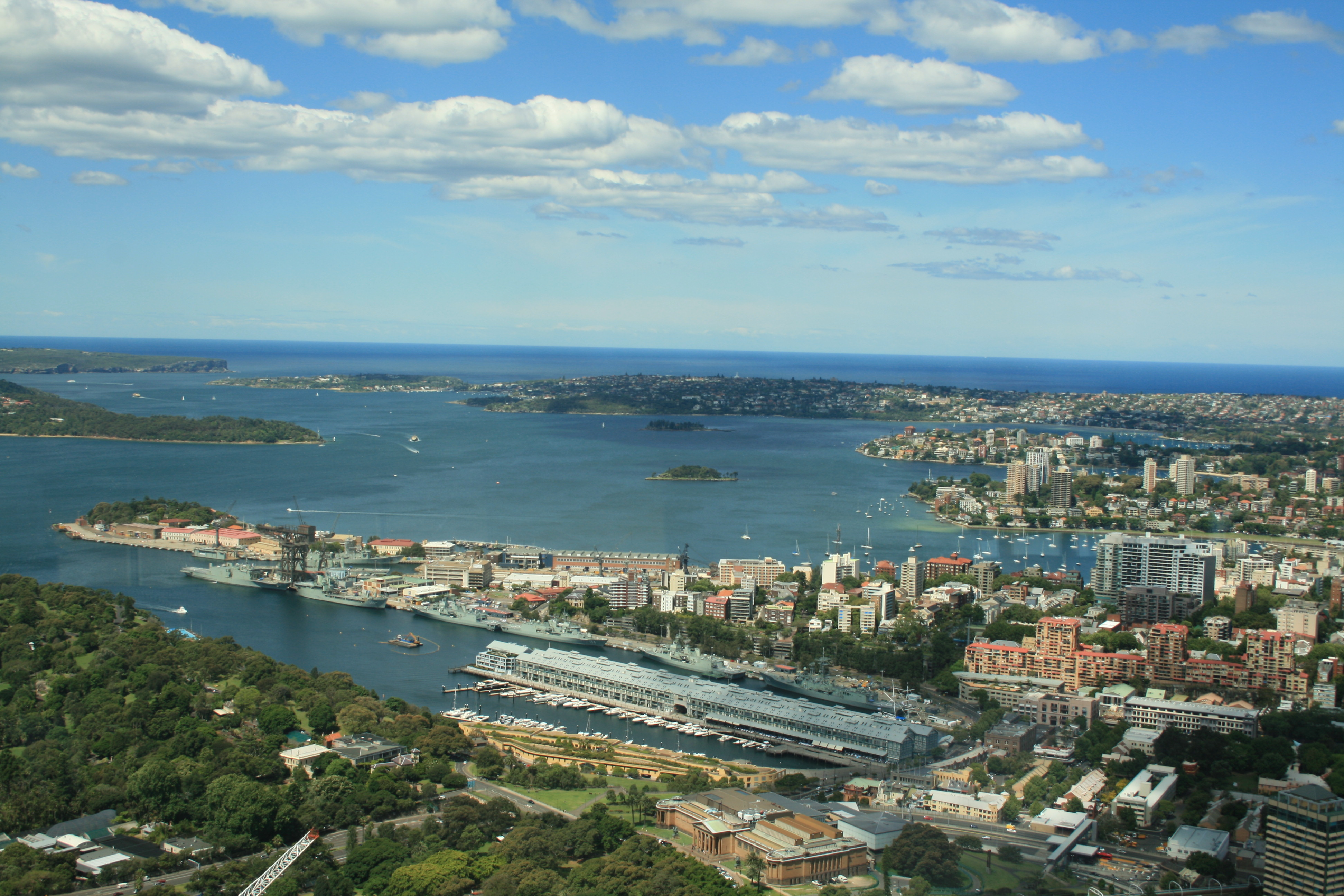 View from Sydney Tower, Sydney, New South Wales, Australia, looking northeast over Sydney Harbour